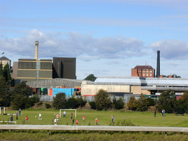 Football Field and John Smith's brewery. South side of Tadcaster - taken from the A64 Tadcaster by-pass.